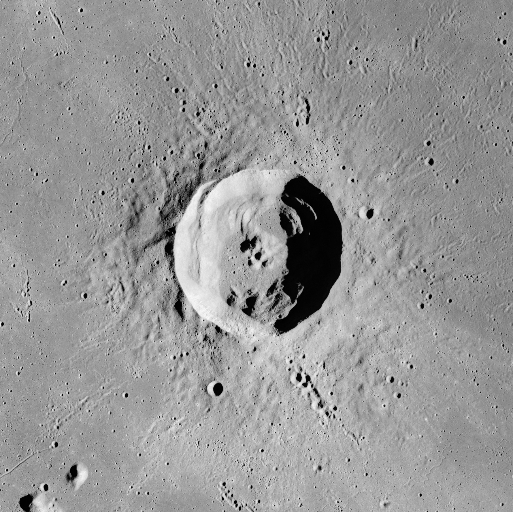 Euler crater, on the moon. Sun angle is 15 degrees.